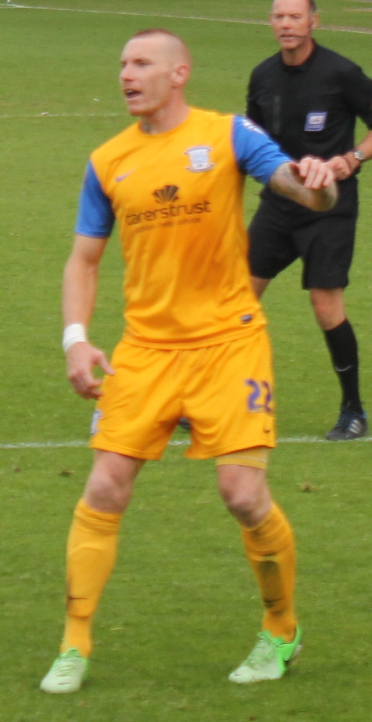 Jack King playing for Preston North End against Crewe Alexandra at Gresty Road, Crewe on 3 May 2014